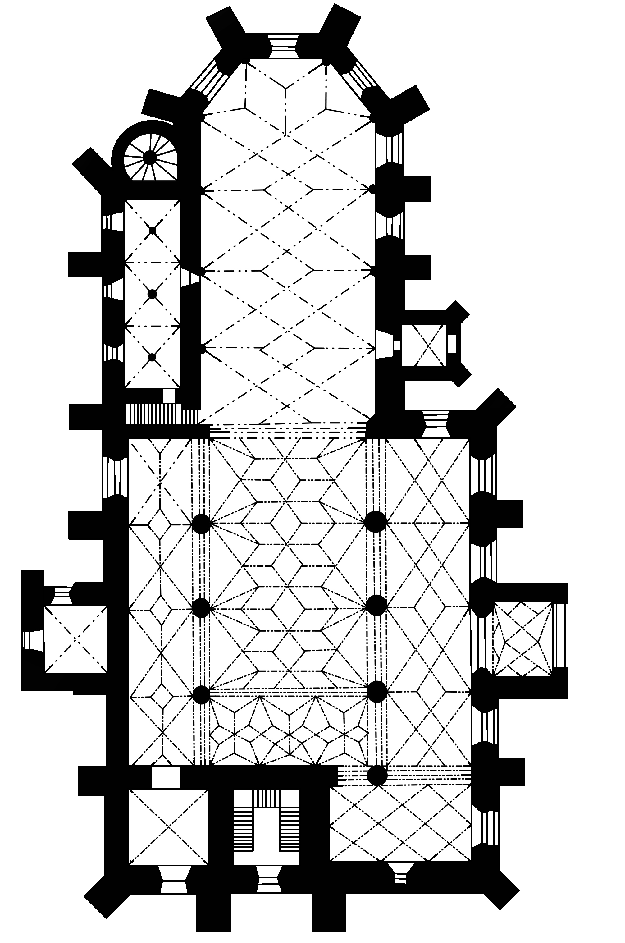 Ground plan of the basilica of the holly cross